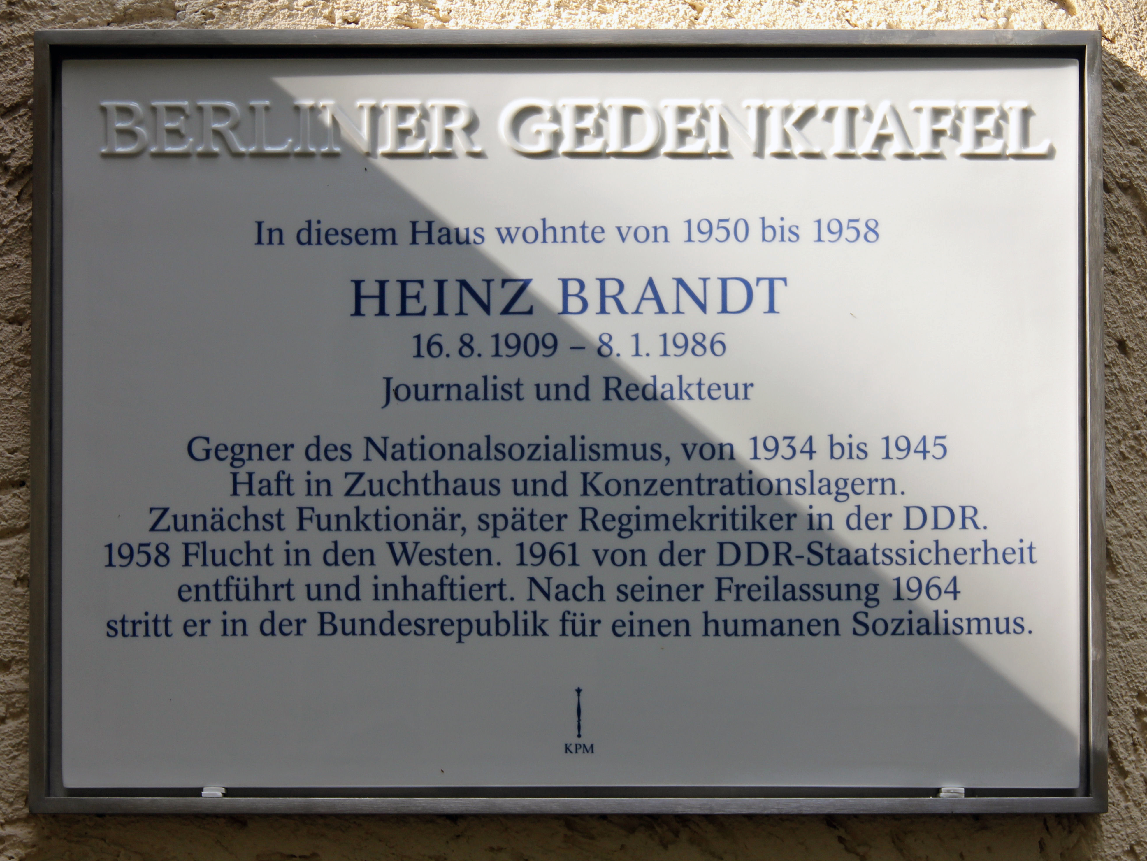 Berlin memorial plaque, Heinz Brandt, Neumannstraße 50, Berlin-Pankow, Germany